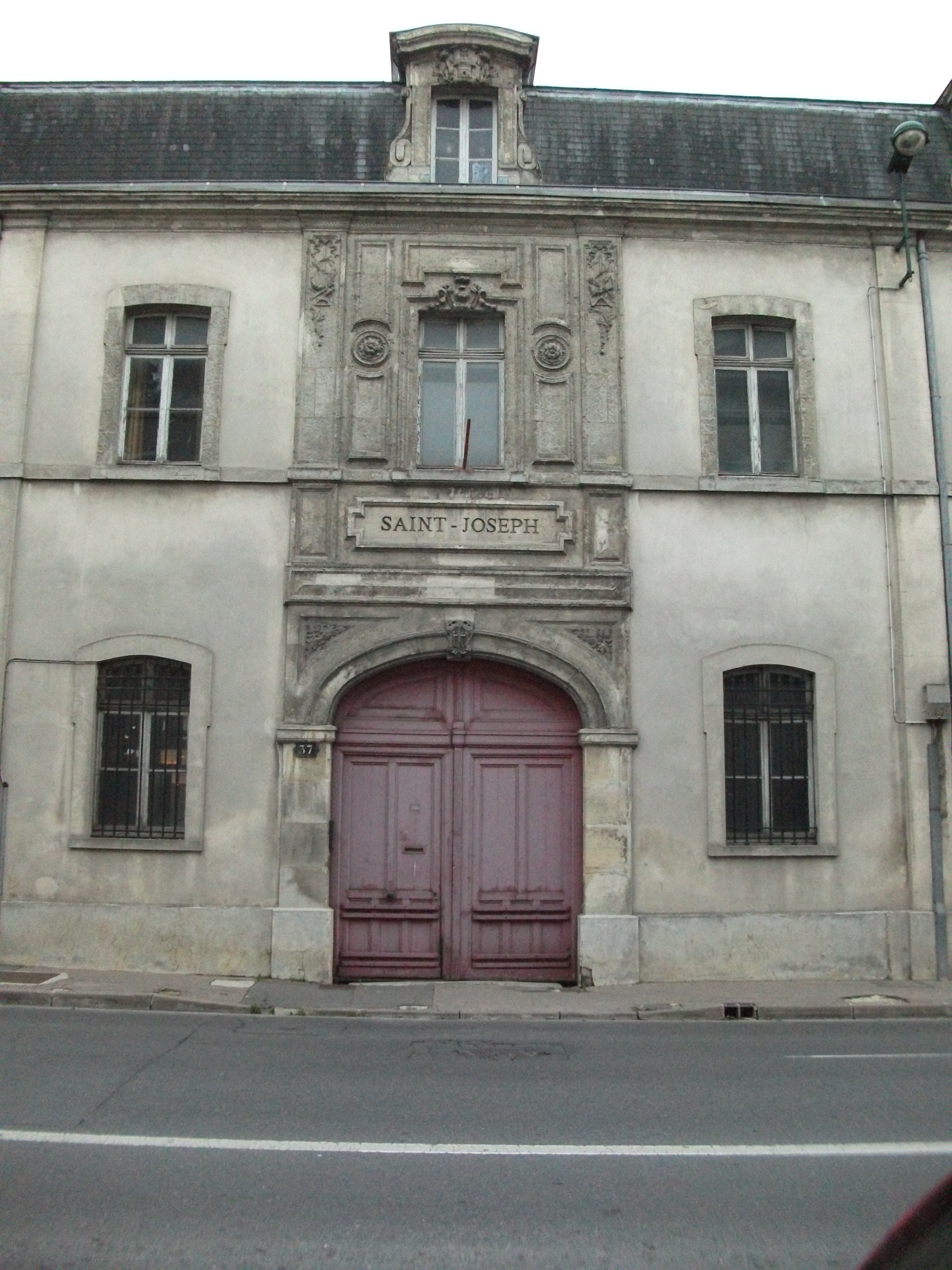 ancienne entrée de l'établissement St Joseph de Reims.